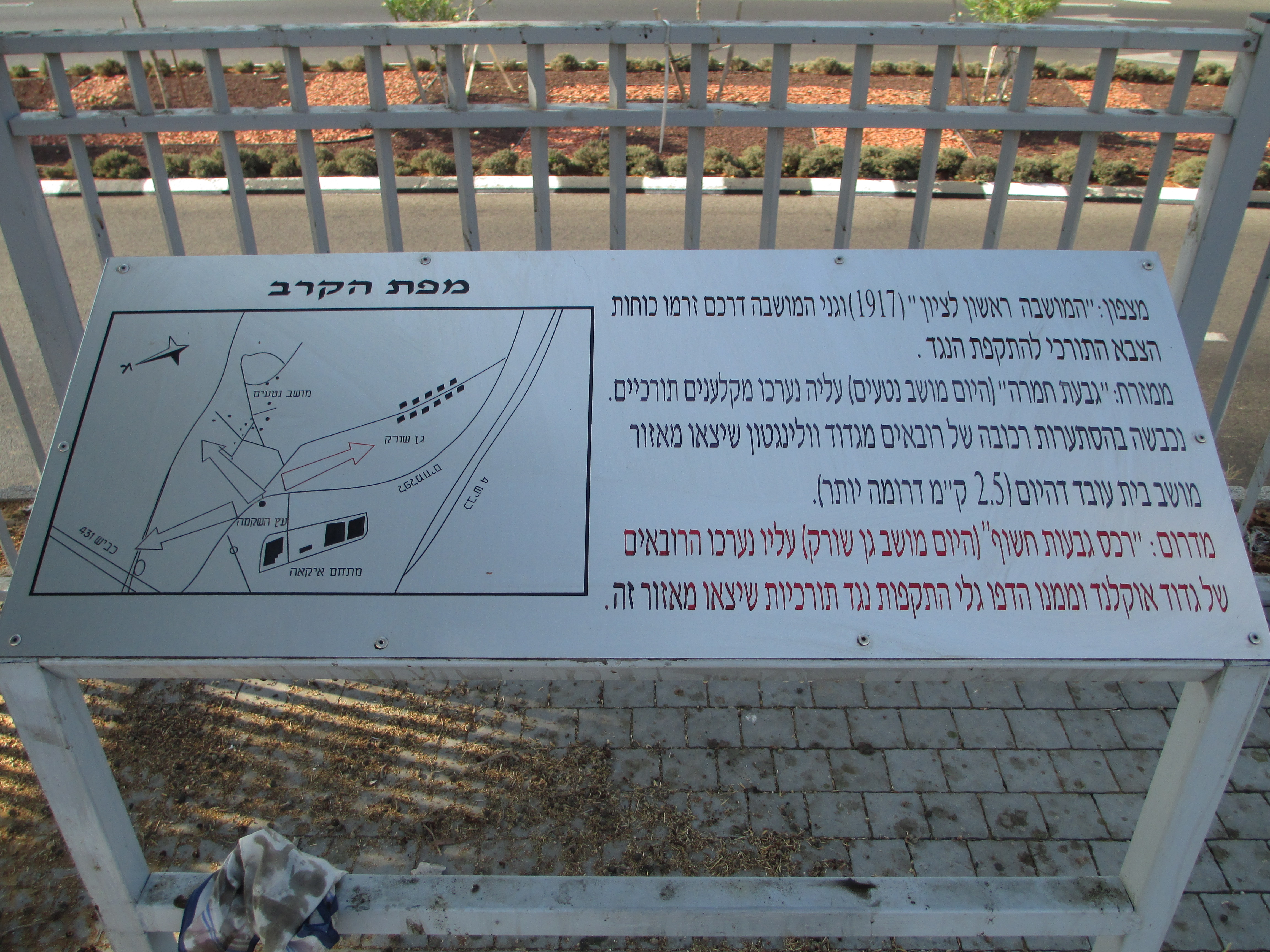 Memorial to New Zealand Mounted Rifles Brigade in Rishon Lezion